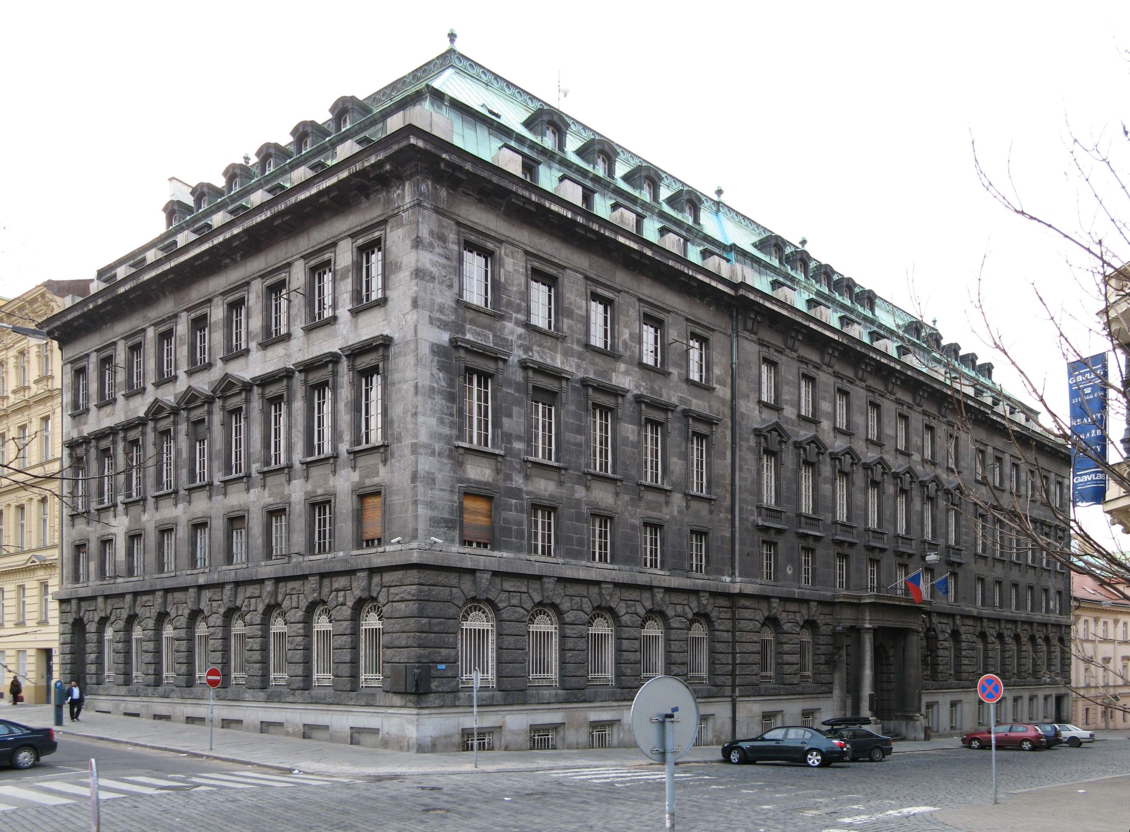 Petschek palace, built in 20th od 20th century, during the WW2 gestapo, after war Ministry of Foreign Trade, toda Ministry of Industry and Trade.